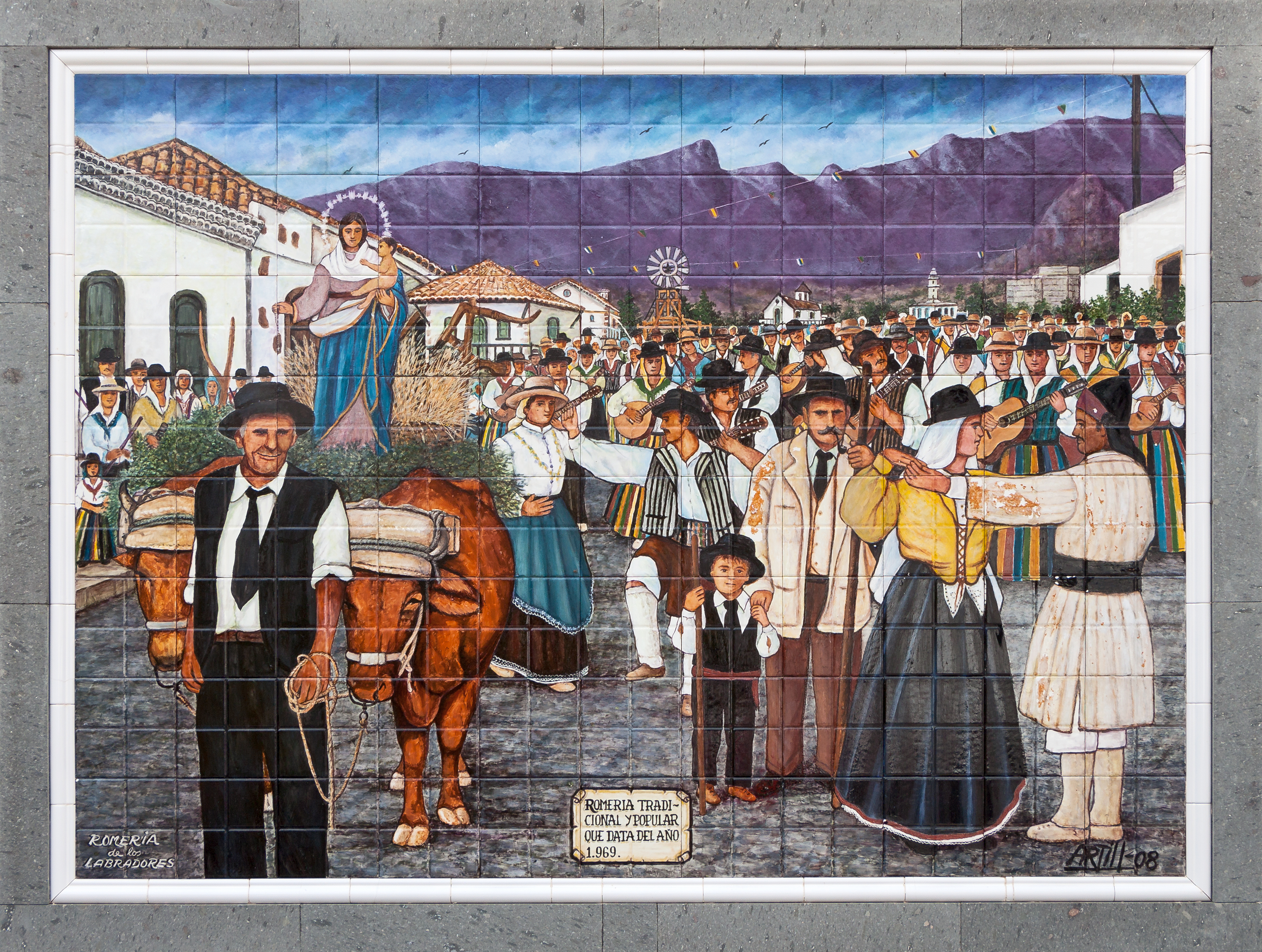 Picture of painted tiles "Romeria de los Labradores" (Pilgrimage of the farmers) in Santa Lucía de Tirajana which takes place at the sunday following the St. Lucy's day (13th December); Santa Lucía de Tirajana, Gran Canaria, Canary Islands, Spain.